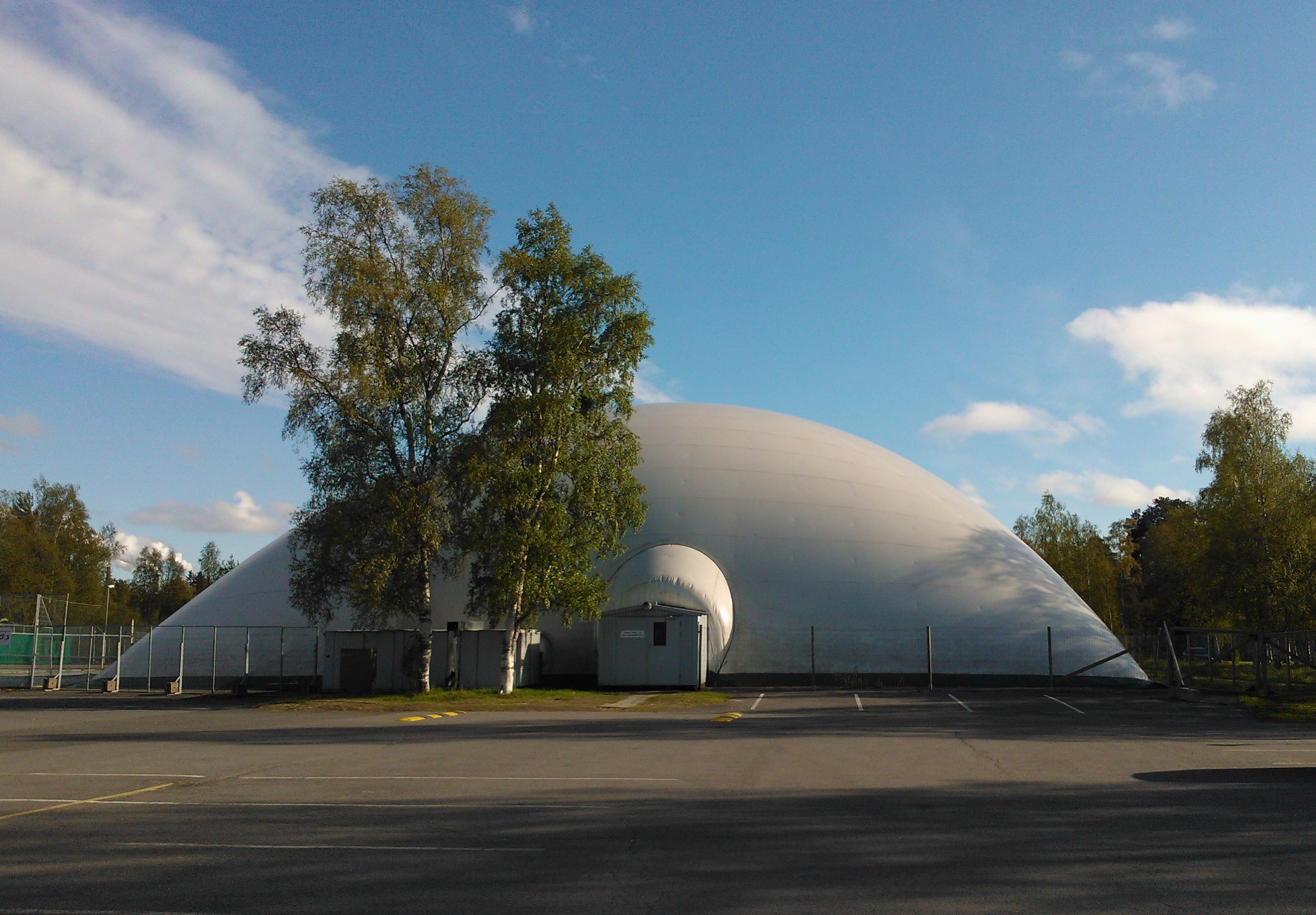 An air-inflated tennis hall in Hietasaari, Oulu.